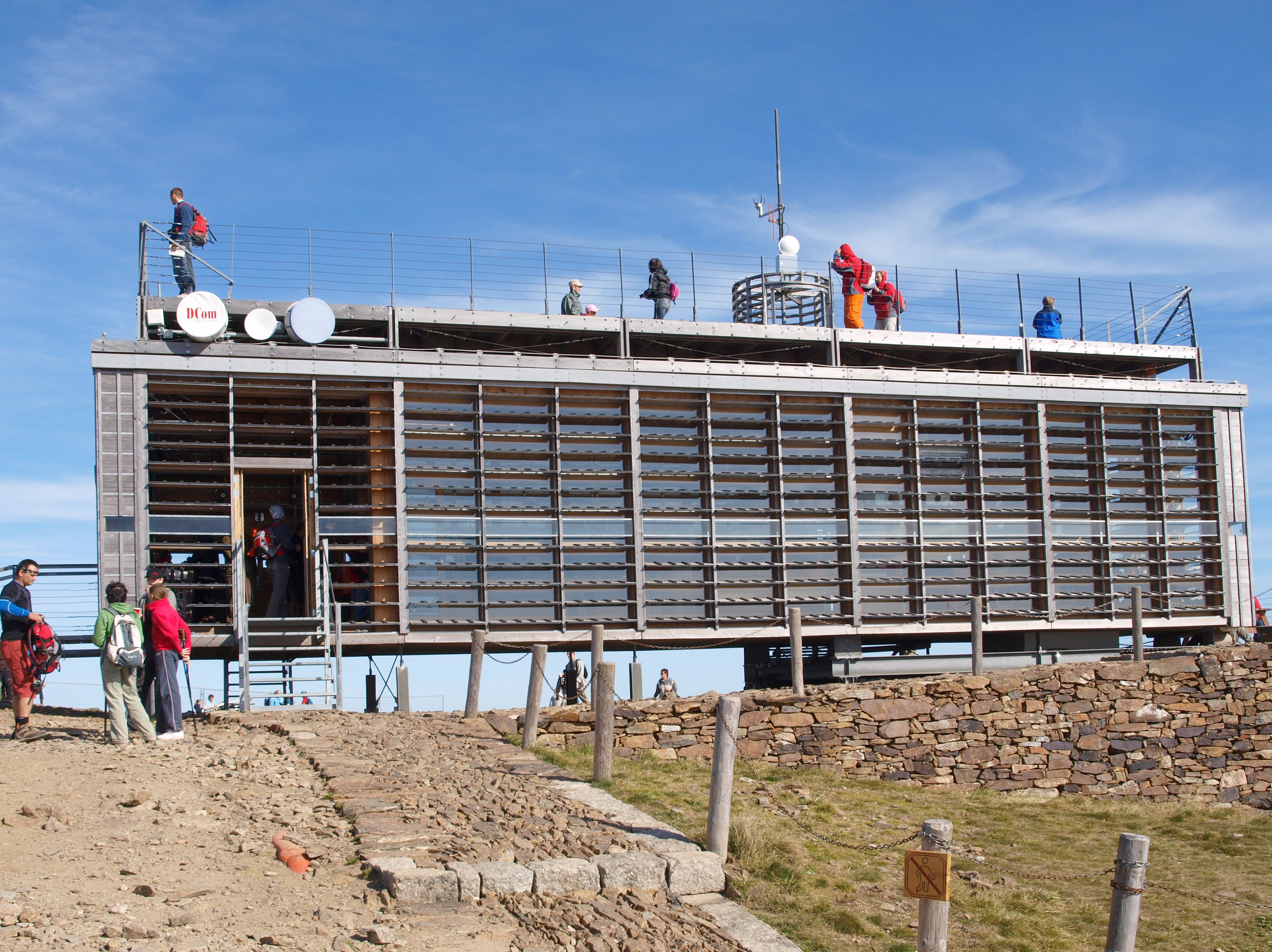 New Czech post office, Sněžka, Krkonoše